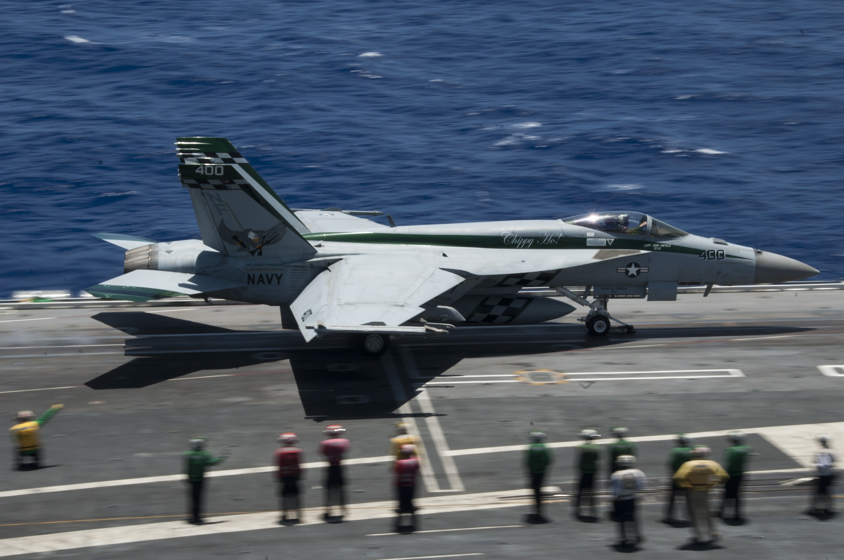 A U.S. Navy Boeing F/A-18E Super Hornet from Strike Fighter Squadron 195 (VFA-195) "Dambusters" launches from the flight deck of the aircraft carrier USS George Washington (CVN-73) off Guam (USA), on 31 May 2015. George Washington and its embarked air wing, Carrier Air Wing 5 (CVW-5), were on patrol in the U.S. 7th Fleet area of responsibility supporting security and stability in the Indo-Asia-Pacific region.